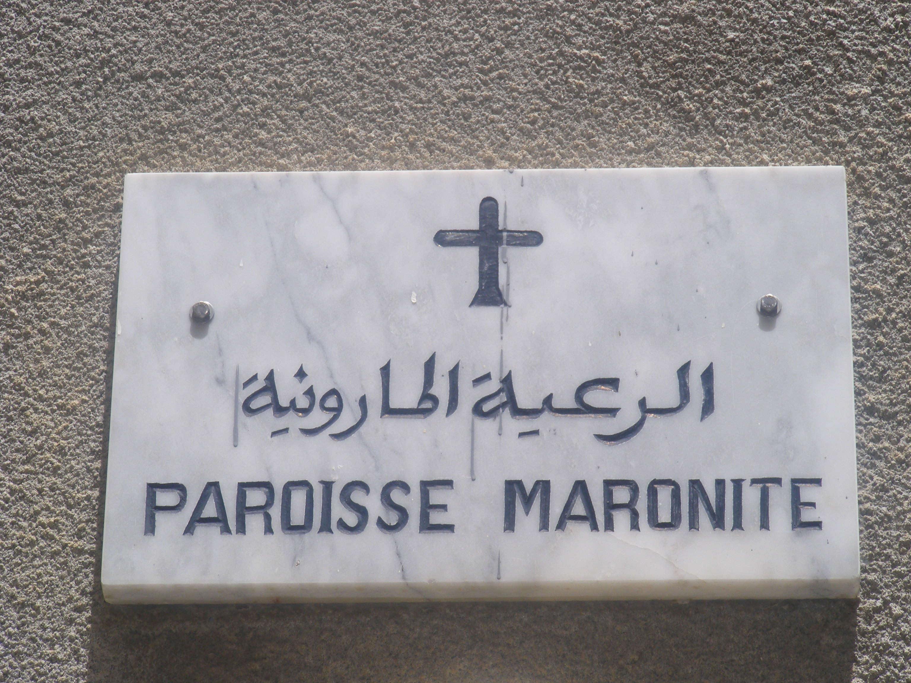 The Maronite Church in Akko, Israel